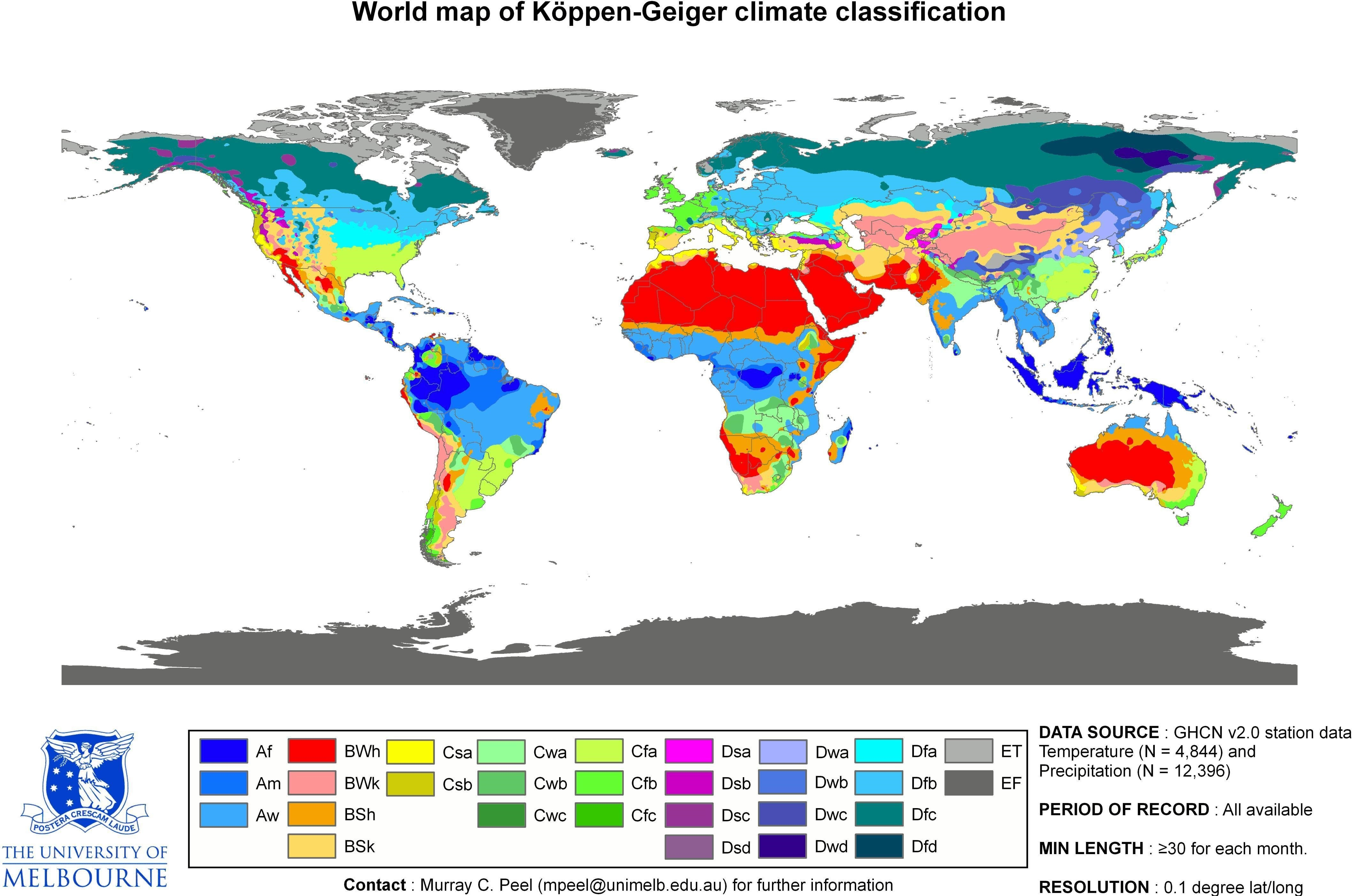 Updated world map of the Köppen-Geiger climate classification.